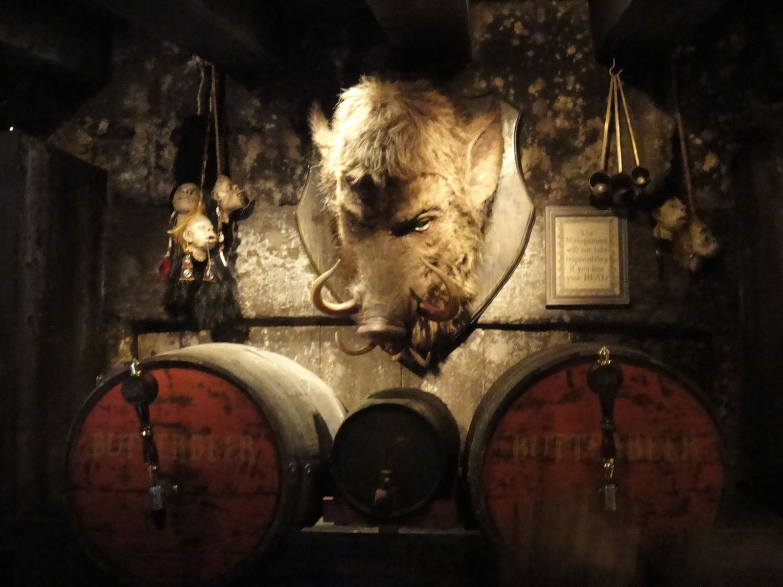 Wizarding World of Harry Potter - behind the bar at the Hog's Head pub